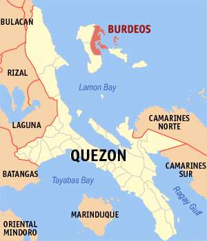 Map of Quezon showing the location of Burdeos